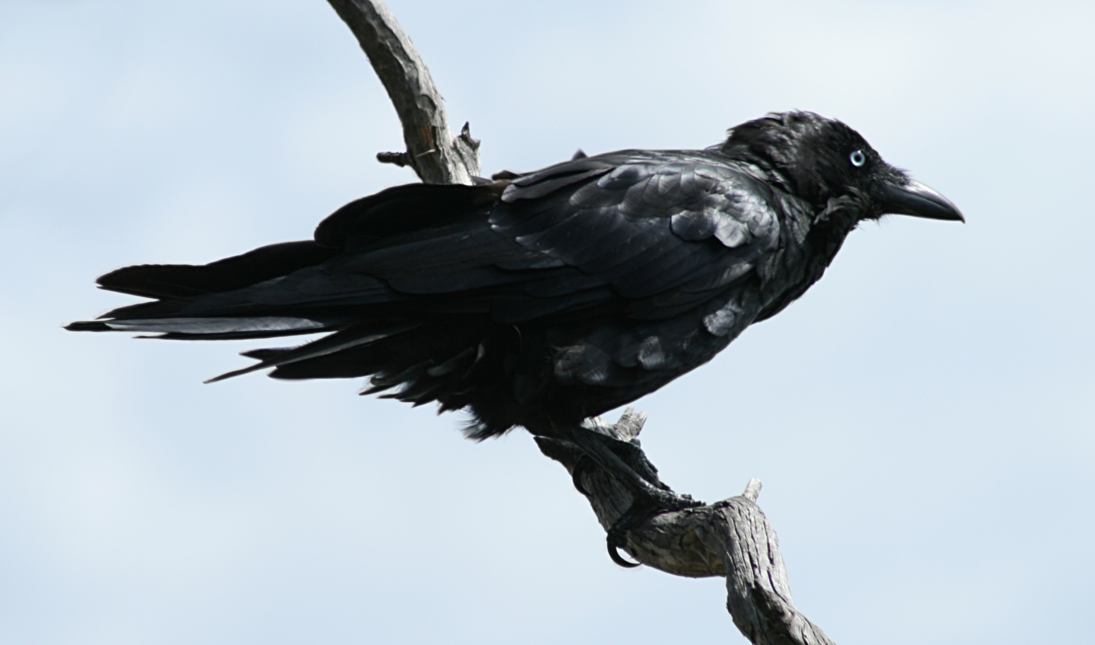 An Australian Raven (Corvus coronoides) perched on a branch in high winds against a clouded backdrop. This photograph was taken on the climb up to the headland at Merry beach on the south coast of New South Wales (NSW), Australia.